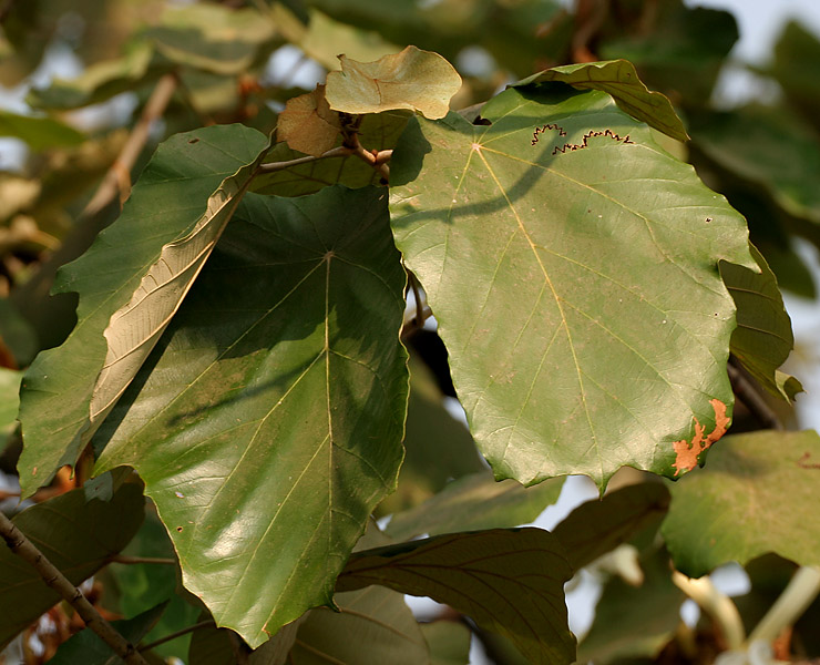 Pterospermum acerifolium - Kanak Champa, Moochukund, Bayur tree, Dinner Plate Tree, Karnikar Tree or Maple-Leafed Bayur Tree near Hyderabad, India.